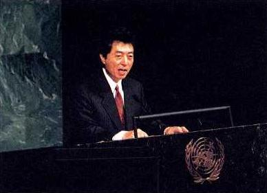 Morihiro Hosokawa, Prime Minister, addressed at the United Nations General Assembly at the Headquarters of the United Nations in New York City, New York State on September 27, 1993.(For terms of use, see 法的事項 ｜ 外務省.)